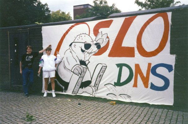 Oslo Studentfestival logo